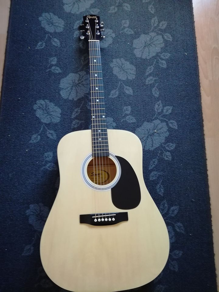 A Squier SA-105 acoustic guitar.